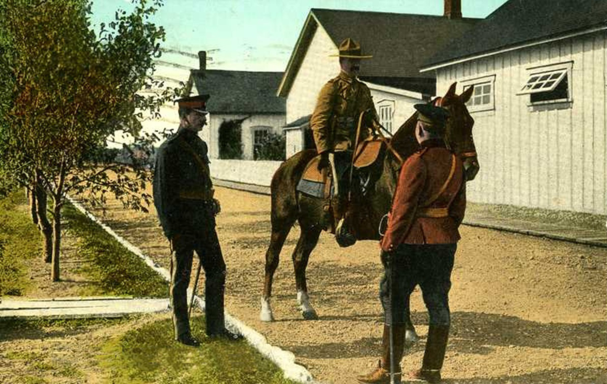 Postcard of Royal North West Mounted Police officers at the Macleod, Alberta barracks, 1910s